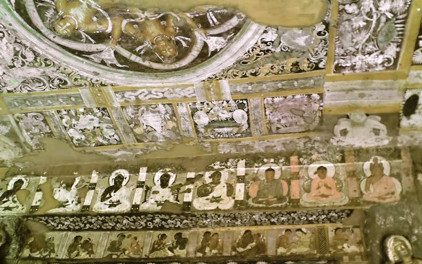 Entrance of cave 17 of Ajanta + part of the ceiling before entrance